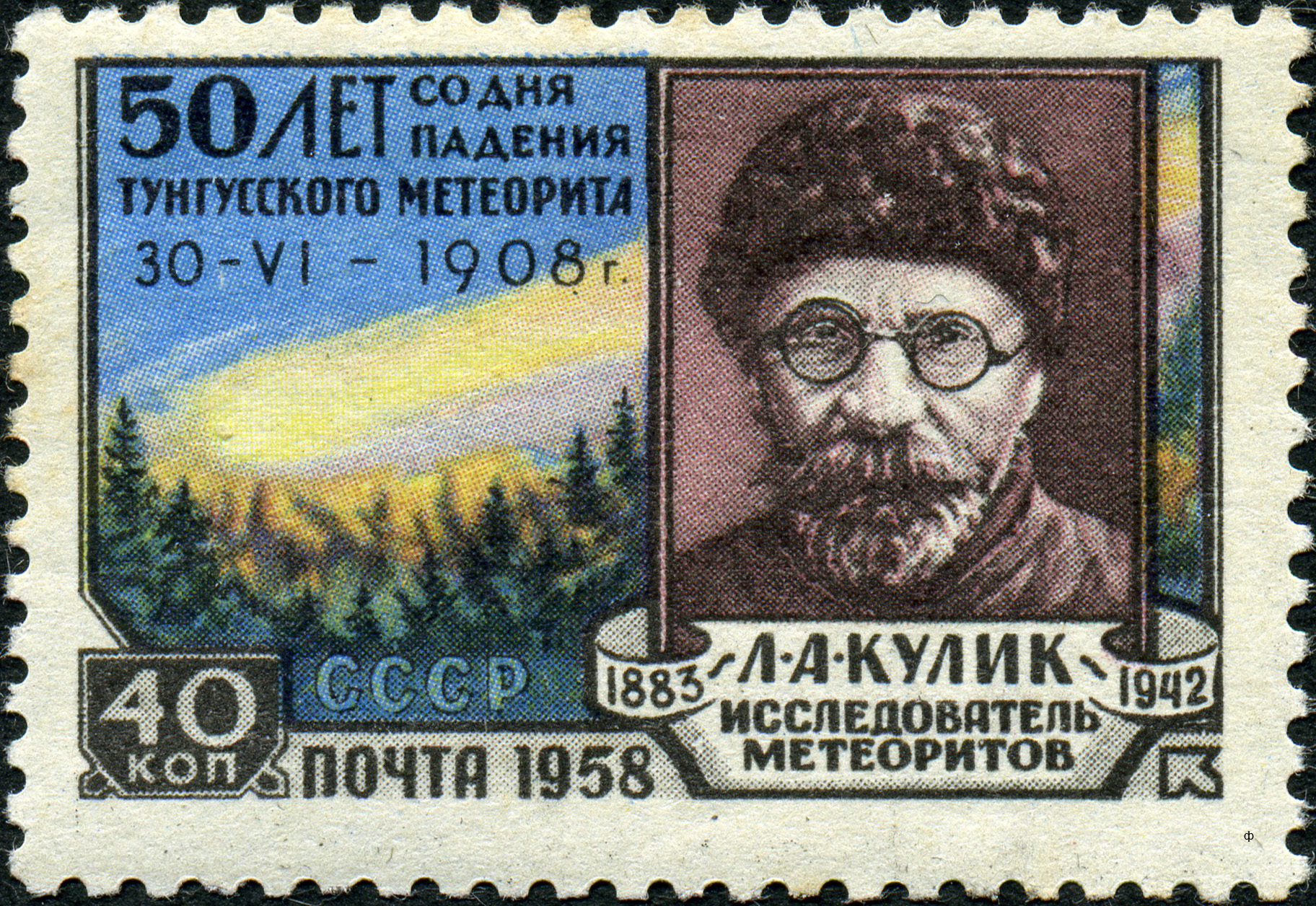 Leonid Alekseyevich Kulik, Russian mineralogist